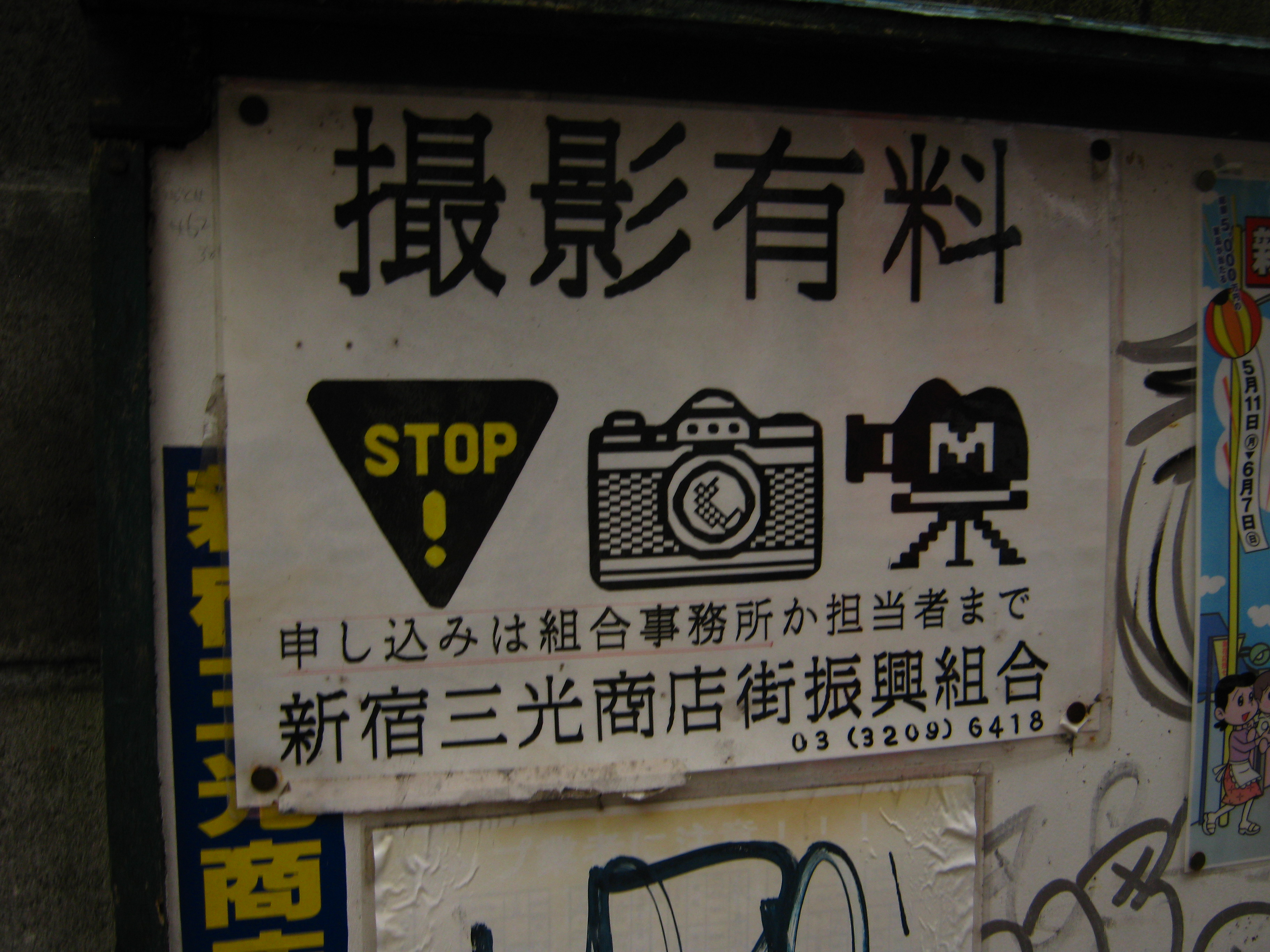 Golden Gai